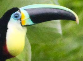 Citron-throated Toucan (Ramphastos citreolaemus)